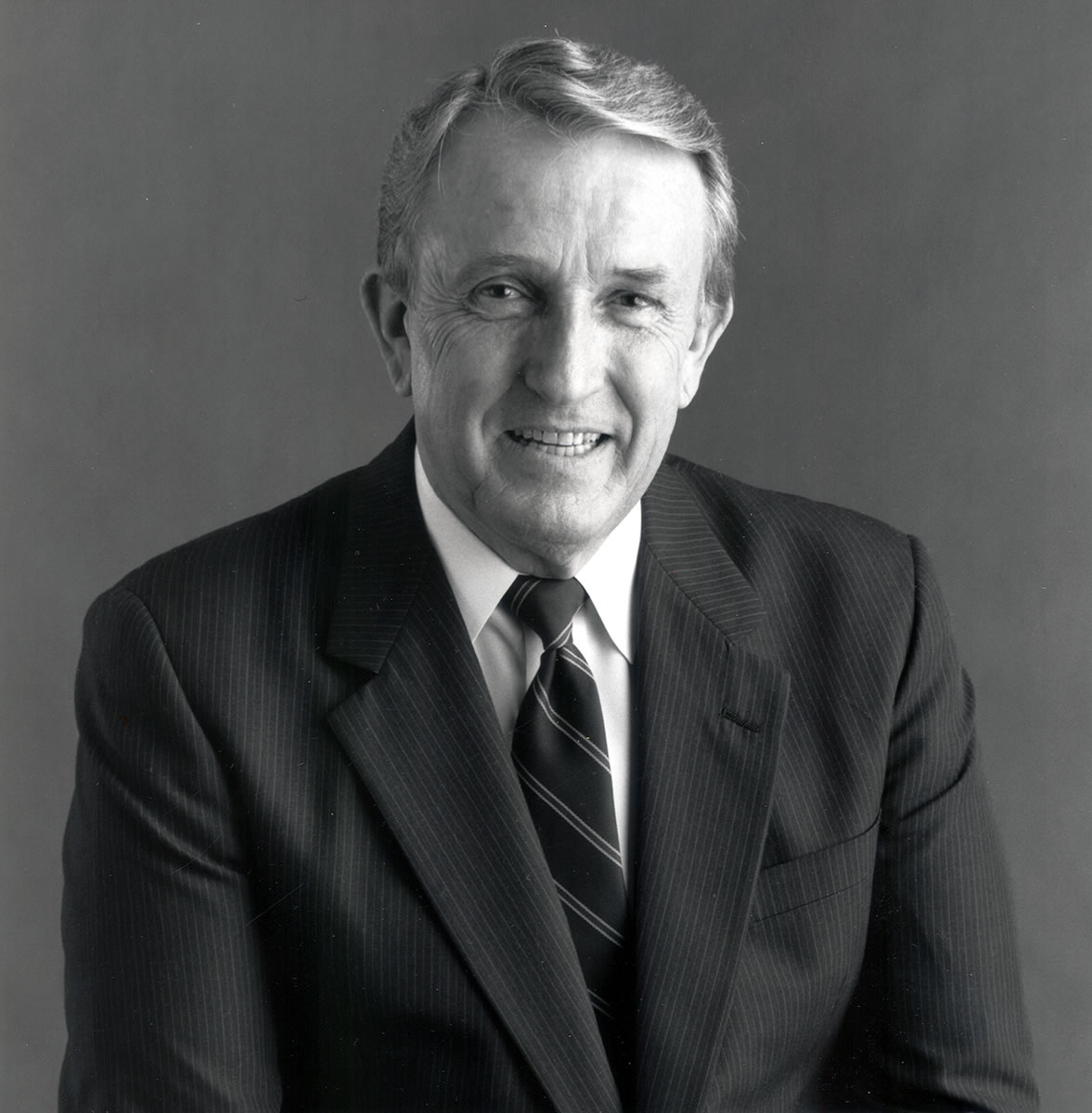 As the 38th Governor of Arkansas, Bumpers helped stop the dredging and channelization of 232 miles of the Cache River and its tributary, Bayou DeView, saving some of the last remaining bottomland hardwood forests in the Mississippi River Valley. As a U.S. Senator, Bumpers was instrumental in the establishment of the Cache River National Wildlife Refuge in 1986. In 1993, he facilitated an innovative land exchange that swapped government-owned Idaho timberland to add 41,000 acres of wetlands and bottomland hardwood forest to the White River and Cache River National Wildlife Refuges. Ultimately, the two refuges were connected by a corridor of some 80 river miles. White River Refuge was renamed in his honor on April 18, 2014.